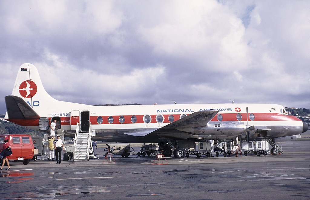 NZ National Airways Corporation Vickers 807 Viscount ZK-BRD at Wellington Airport in 1971.